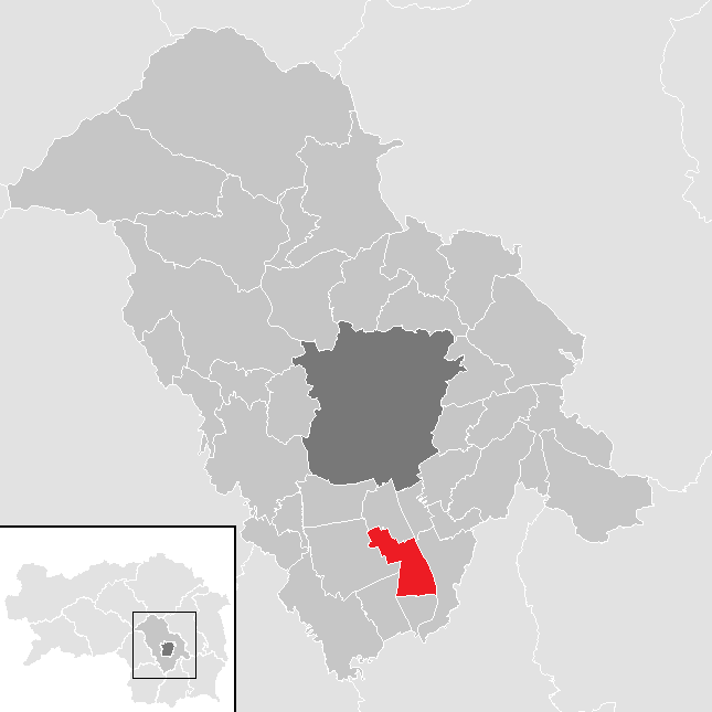 District Graz-Umgebung, Styria